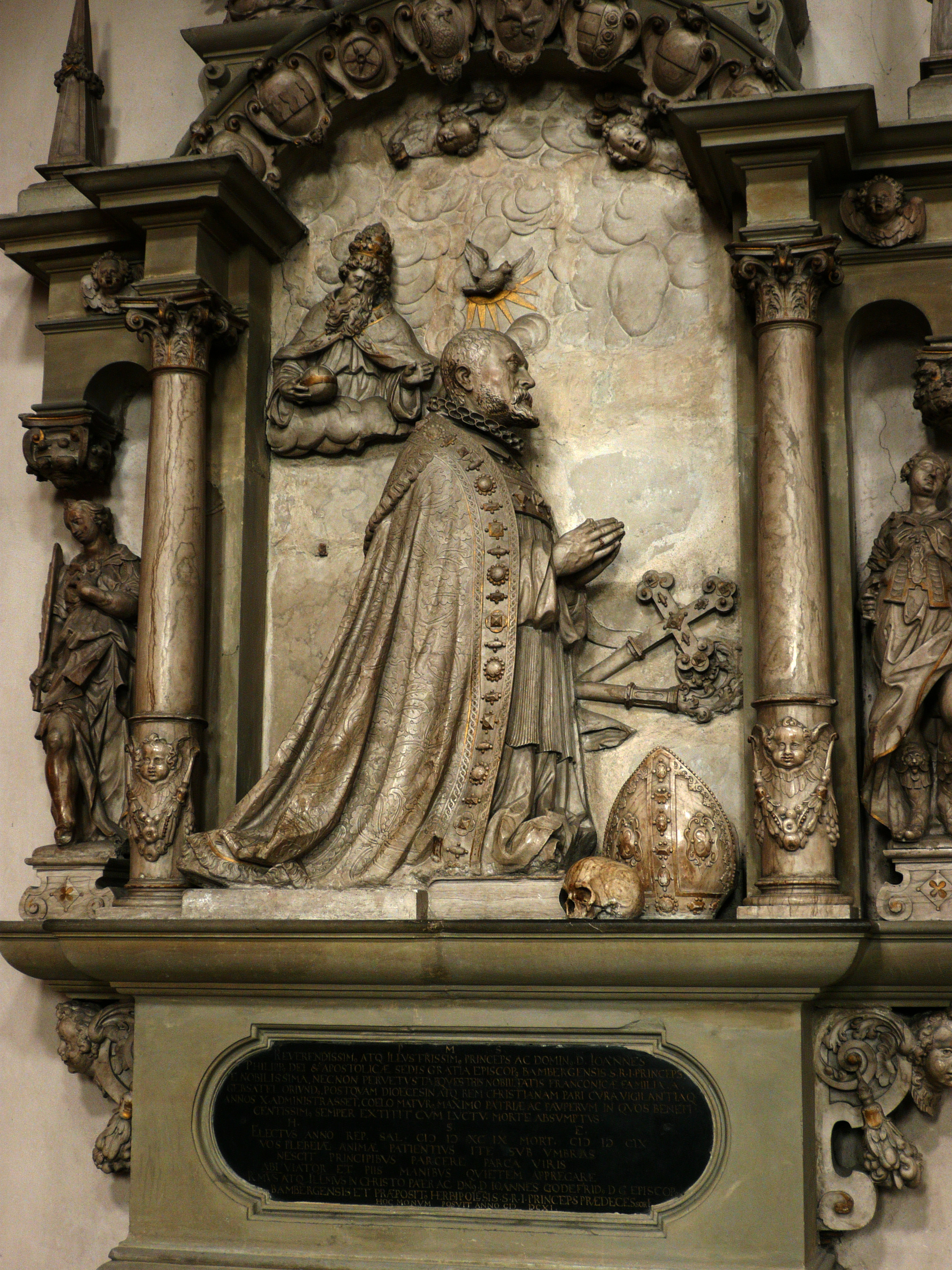 Tomb of Johann Philipp von Gebsattel in Michaelskirche, Bamberg